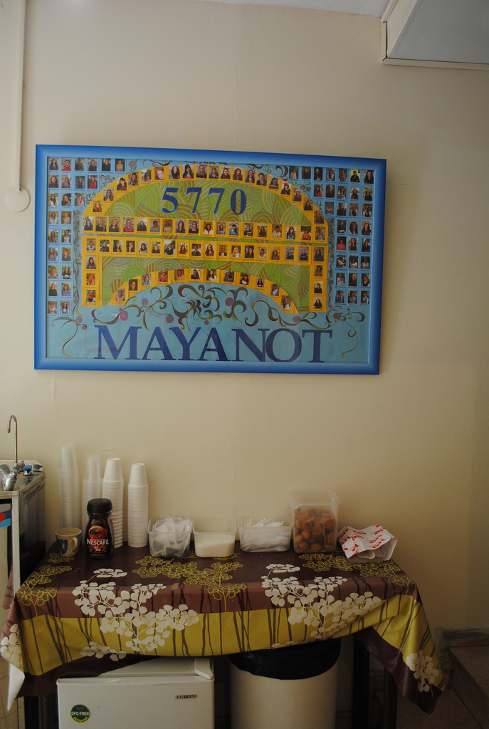 A picture of the coffee and tea station for the Mayanot Women's Seminary